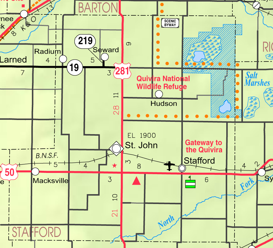 This map of Stafford County, Kansas, USA, is copied at a resolution of 300 pixels/inch from the original PDF file.